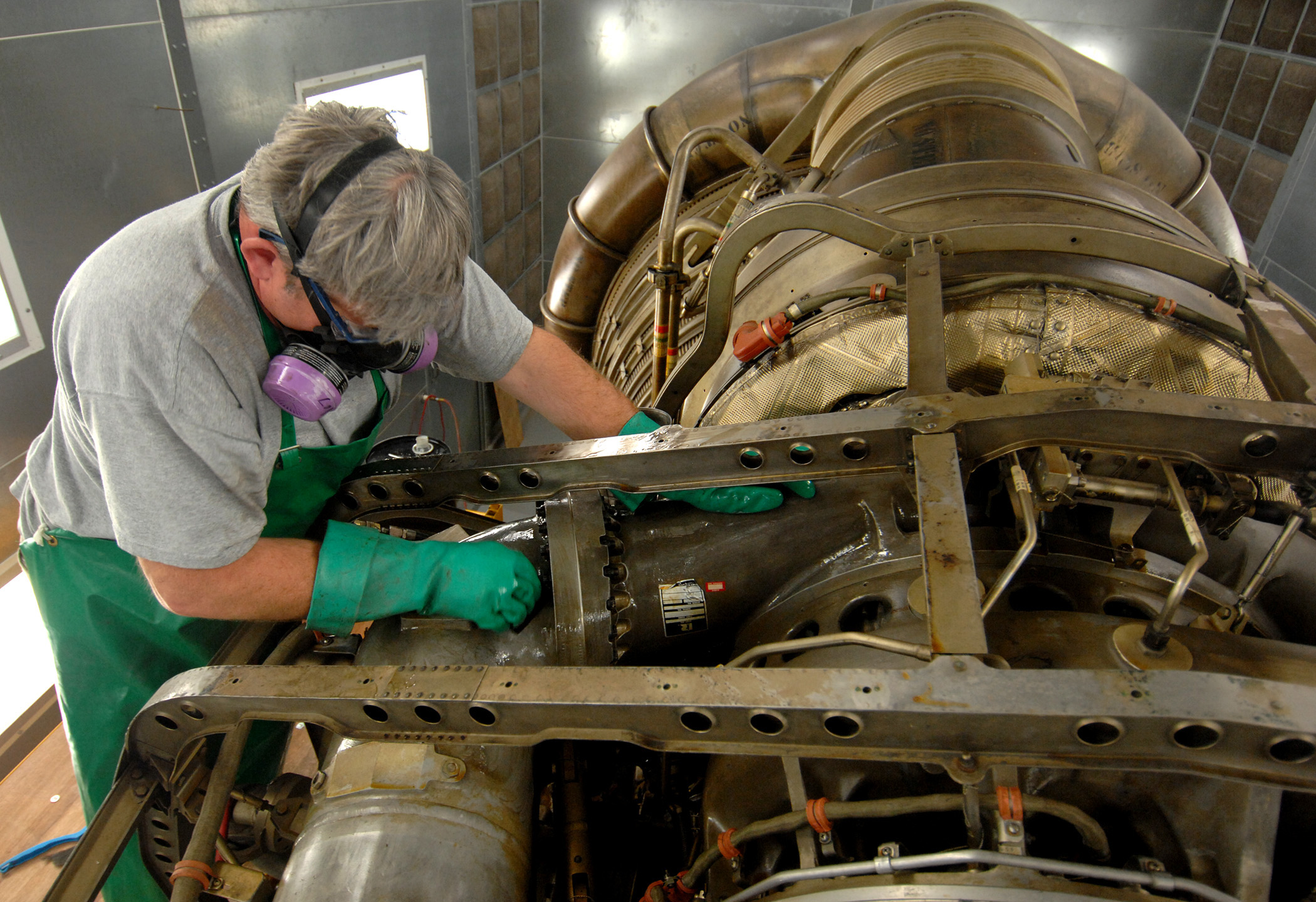 SUITLAND, Md. (June 6, 2007) - Retired Senior Chief Aviation Machinist's Mate Scott Wood carefully restores a Saturn V F-1 rocket engine to its original condition at the National Air & Space Museum's Paul E. Garber Preservation, Restoration and Storage Facility. Five F-1 engines were used on the stage one portion of the Saturn V rocket to launch the project Apollo missions into space in the 1960s and 1970s. U.S. Navy photo by Mass Communication Specialist 2nd Class Kristopher Wilson (RELEASED)